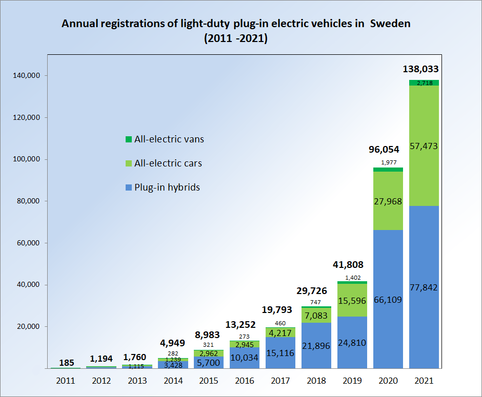 Historical evolution of annual registrations of light-duty plug-in electric vehicles in Sweden from 2011 to 2019. My own work. Data series was taken from Bil Sweden: 2018 and 2019, 2017 and revised 2016 (Table "Nyregistrerade miljöbilar per typ december 2017" reports 2017 figures that do not add up with detailed count in table "Nyregistrerade miljöpersonbilar december 2017" so, plug-in cars figures were taken from the latter) , revised 2015, 2014, 2013, 2012, and 2011